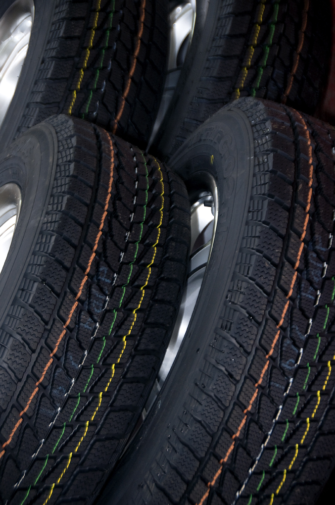 Oregon state law allows motorists to use studded tires from Nov. 1 through March 31. Because studded tires damage Oregon highways, ODOT encourages drivers to consider using chains or non-studded traction tires.